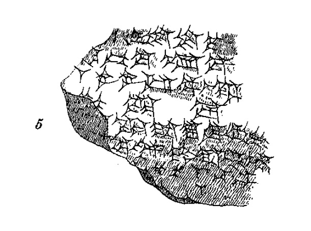 Correspondence between Ilī-ippašra, the governor of Dilmun, and Enlil-kidinni, the governor of Nippur, ca. 1350 BC. (Note on spellings of Individual's names) (see article Ilī-ippašra) Line 3 starts with the vertical stroke (equals 1., or the determinative, for man, 1., individual; the fourth character from left (partially scratched) is the common character pa, and part of Ilī-ippašra's name). Ilī-ippašra: chars: 1.-lí-(for i)-lí-ip-pa-aš-ra